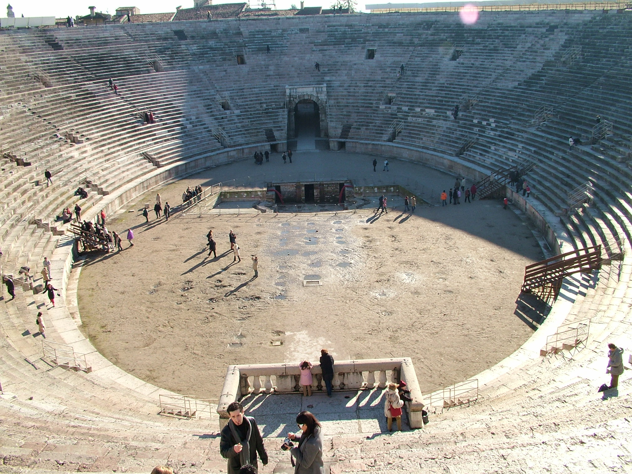 City of Verona